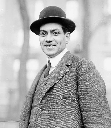 Arthur Caron circa 1914 (LOC) Bain News Service,, publisher. Caron [between ca. 1910 and ca. 1915] 1 negative : glass ; 5 x 7 in. or smaller. Notes: Title from unverified data provided by the Bain News Service on the negatives or caption cards. Forms part of: George Grantham Bain Collection (Library of Congress). Format: Glass negatives. Repository: Library of Congress, Prints and Photographs Division, Washington, D.C. 20540 USA, General information about the Bain Collection is available at Persistent URL: Call Number: LC-B2- 3070-4